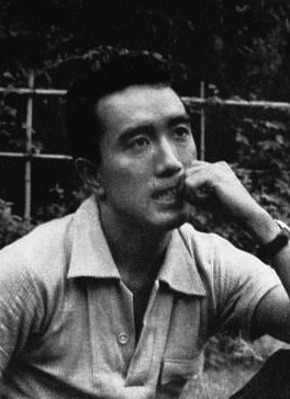 Japanese Author Yukio Mishima (三島由紀夫)